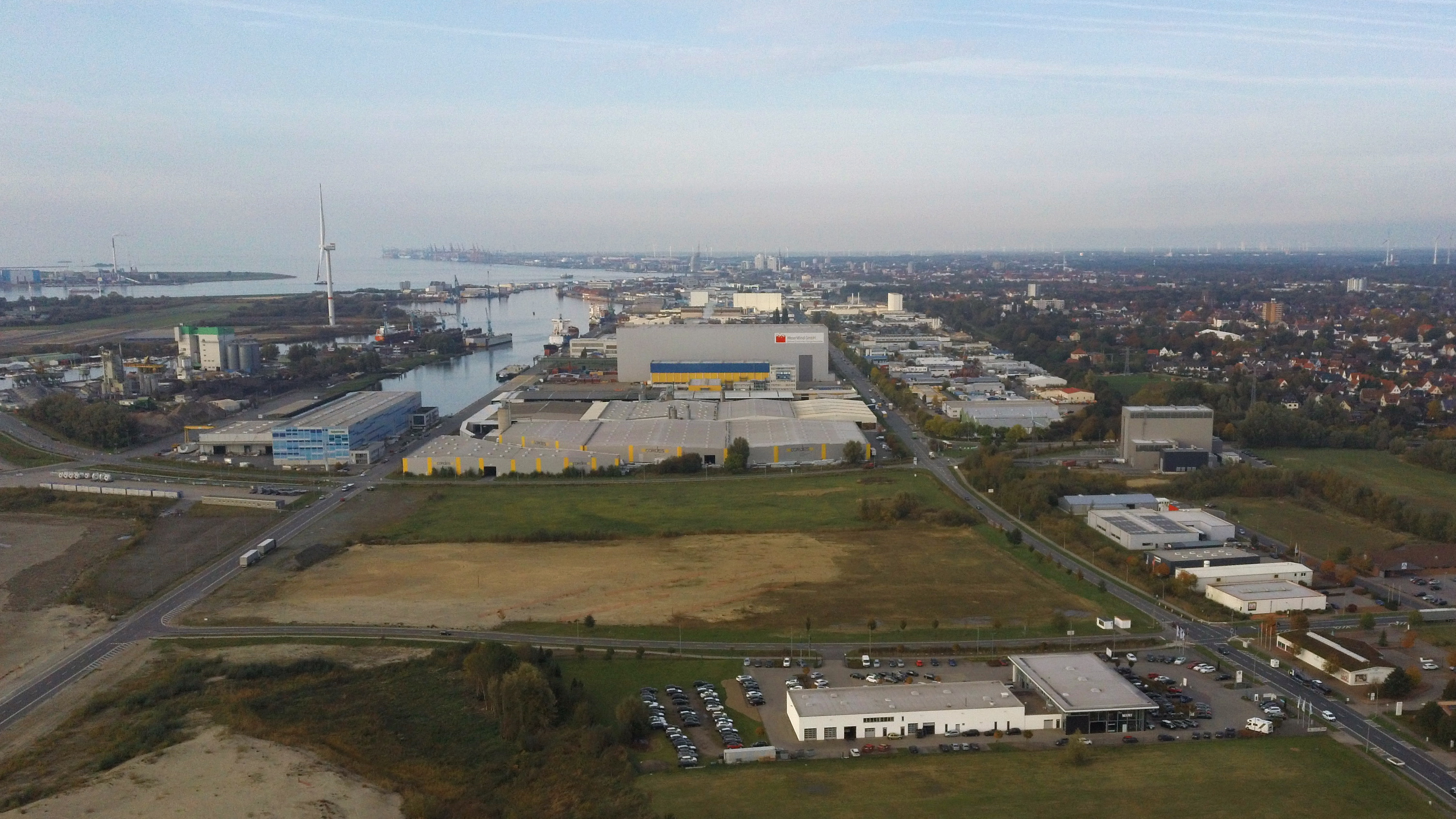 aerial photo of Bremerhaven's Fischereihafen, view towards north